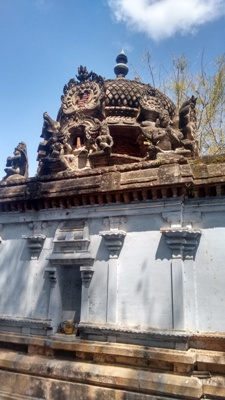 Kumbakonam Ramanujar sannathi கும்பகோணம் ராமானுஜர் சன்னதி